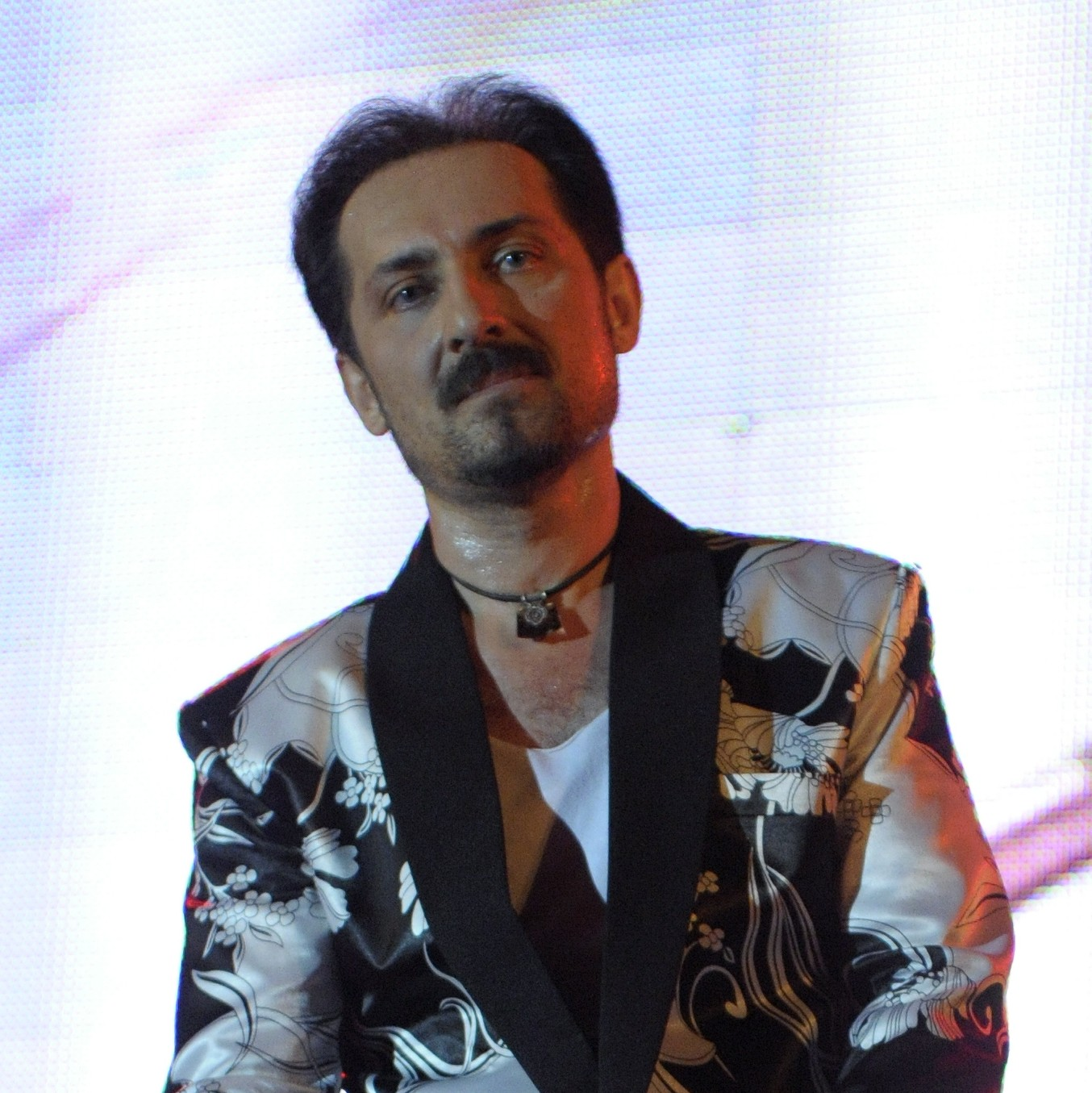 Farhad Darya at the July 2010 Peace Concert in Kabul, Afghanistan.